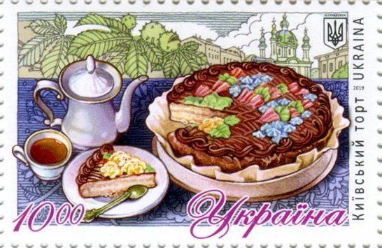 Stamps of Ukraine 2019